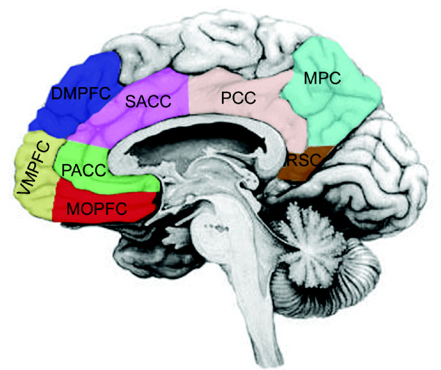 Cortical midline structures-anatomical definition. Perigenual anterior cingulate cortex (PACC), the ventro- and dorsomedial prefrontal cortex (VMPFC, DMPFC), the supragenual anterior cingulate cortex (SACC), the posterior cingulate cortex (PCC) and the precuneus. Since they are all located in the midline of the brain, they have been coined ‘cortical midline structures’ (CMS)